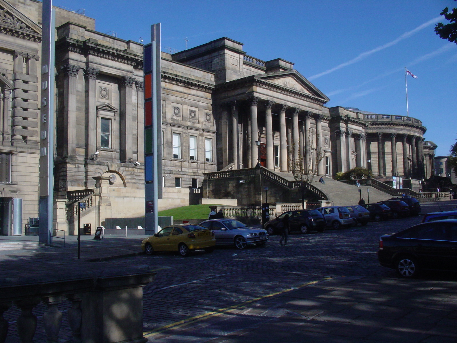 World Museum Liverpool and the Picton reading room of Liverpool Central Library, William Brown Street, Liverpool, England.